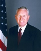 Aubrey Hooks, U.S. Ambassador to the Cote d’Ivoire (Ivory Coast). Source: United States Department of State: Biography of Aubrey Hooks.